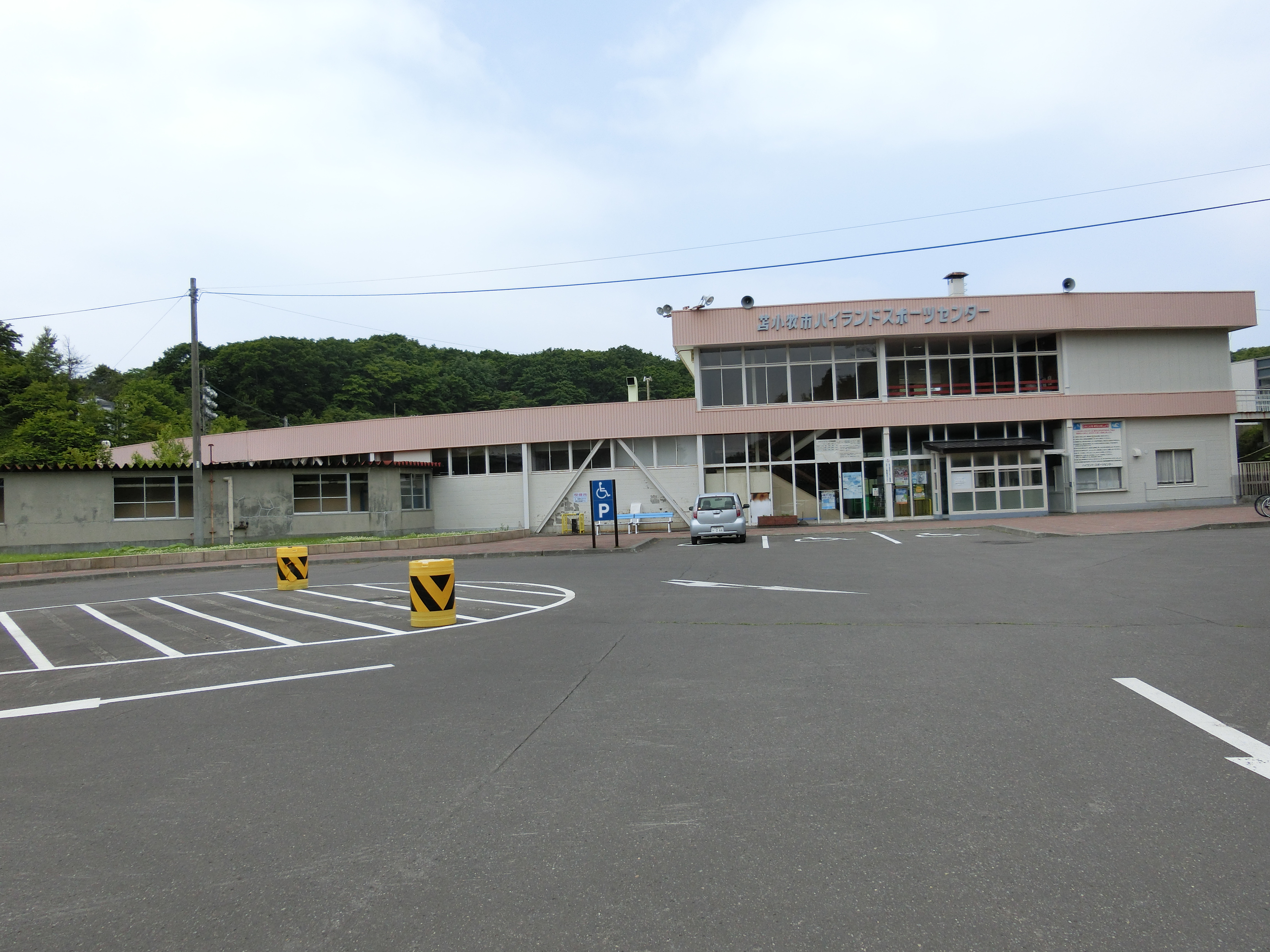 Tomakomai Highland Sports Center located in Midorigaoka Park, Takaoka, Tomakomai, Hokkaido.